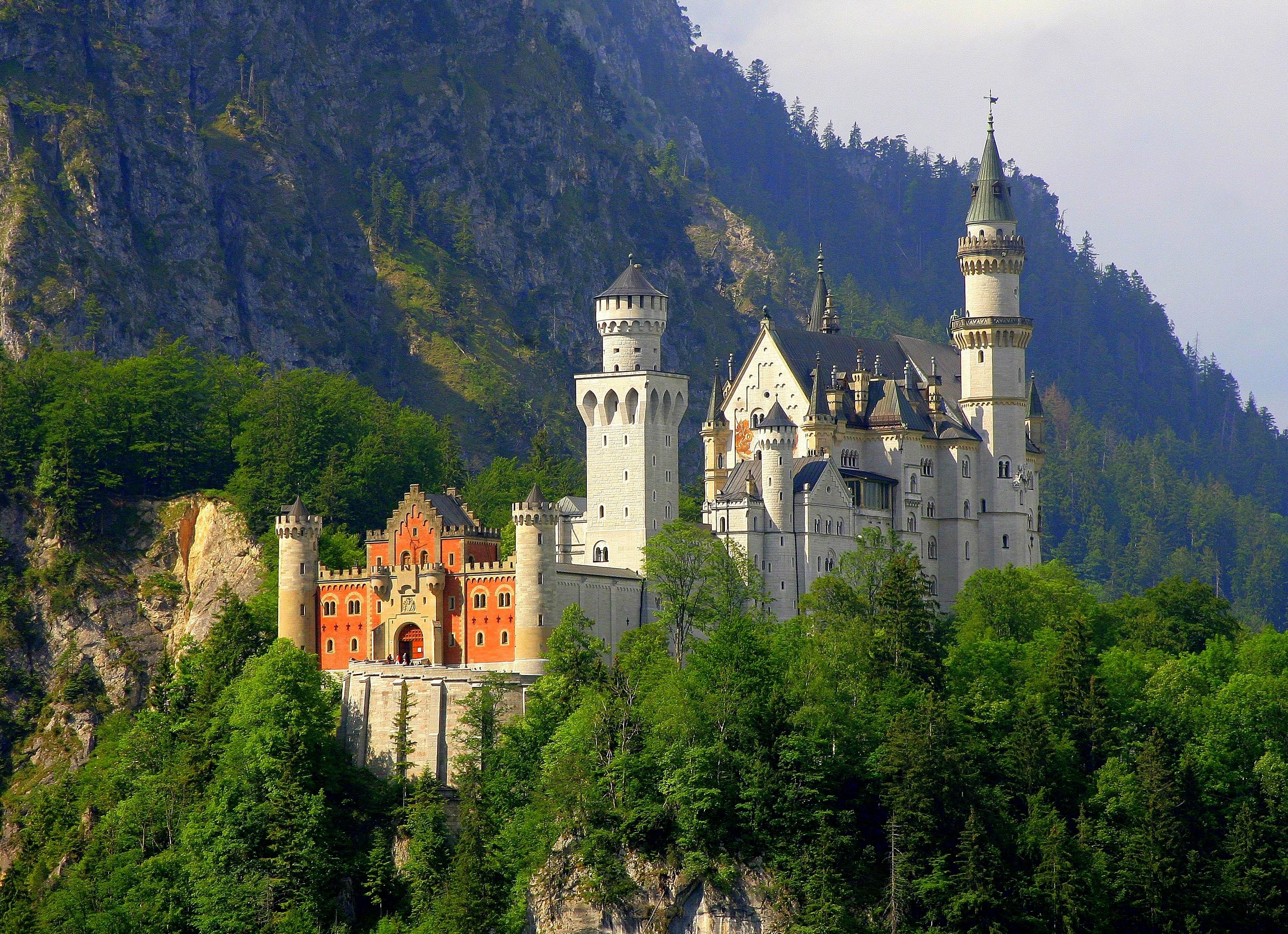 Neuschwanstein Castle is a famous German castle in Schwangau, Bavaria, built by King Ludwig II of Bavaria